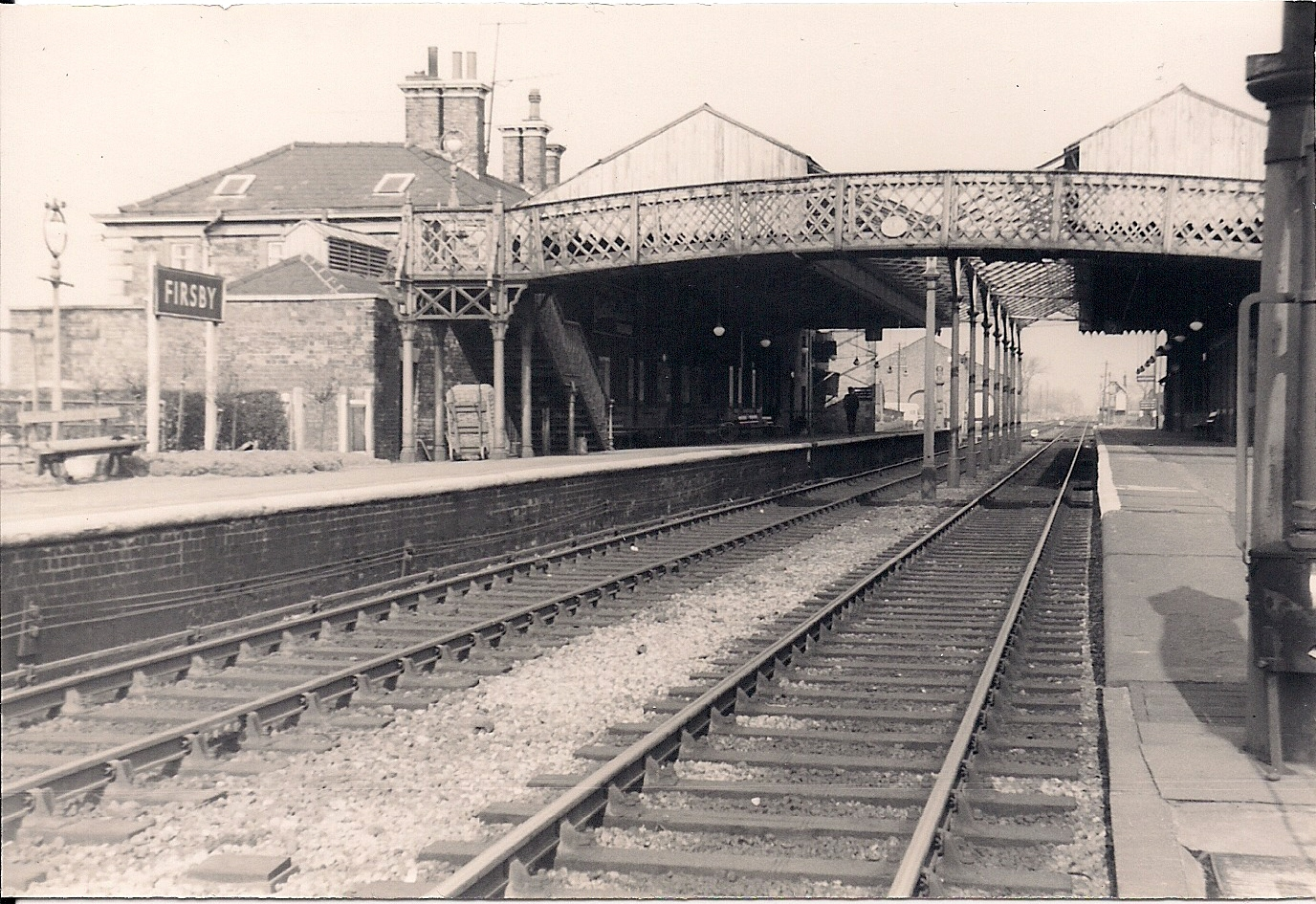 Firsby railway station on 6 April 1968.